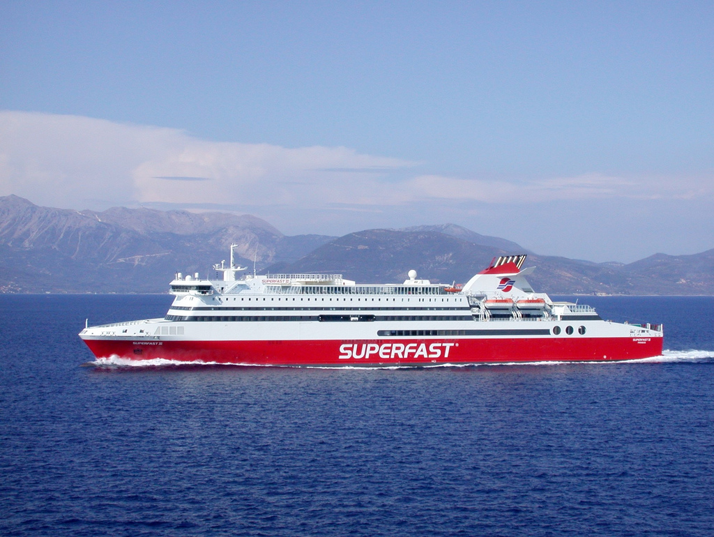 Greek ferry Superfast XI, SYCF, IMO 9227417